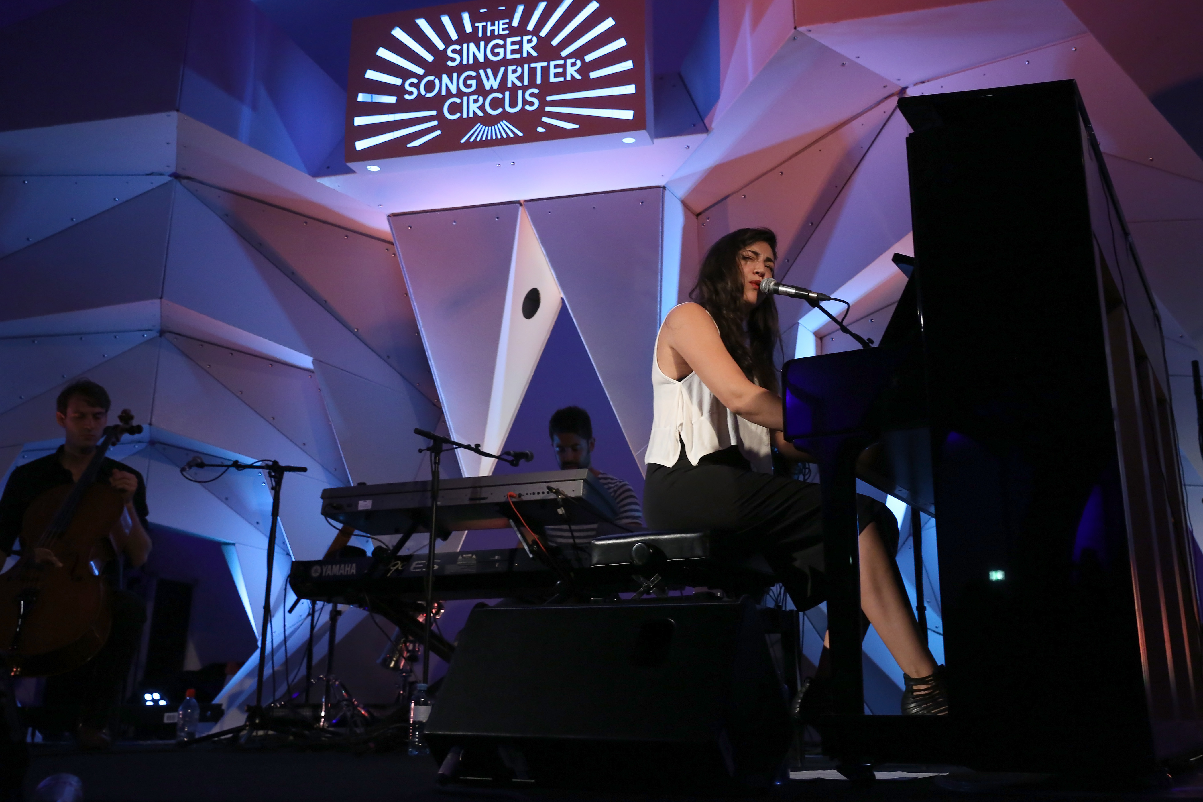 Clara_Blume, concert at the Singer Songwriter Circus at MuseumsQuartier during Popfest 2014 in Vienna, Austria.